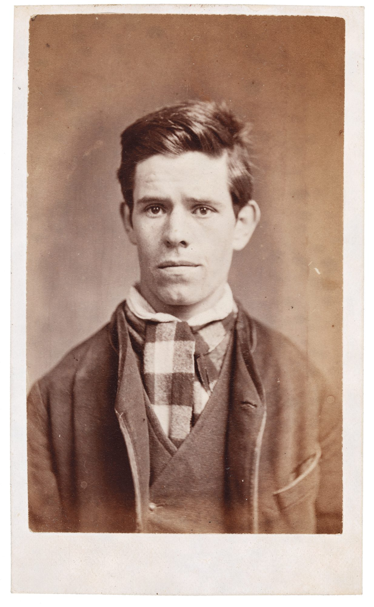 James Nesbitt was an Australian bushranger, and the companion (and probable lover) of noted bushranger "Captain Moonlite". When Nesbitt was fatally shot by authorities in November 1879, Moonlite sat with him as he died, weeping and kissing him; ultimately, Moonlite spent so much time with Nesbitt that he was captured. When Moonlite was hanged, two months later, he wore a ring made from Nesbitt's hair.